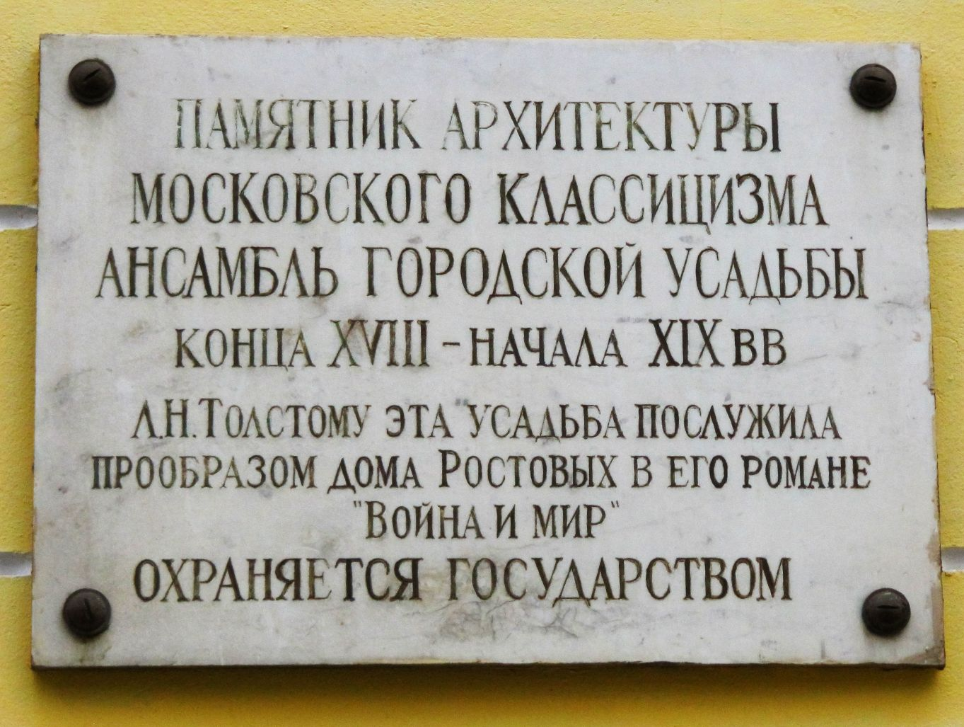 A memorial sign at the manor, which served as a prototype in the novel “War and Peace" by Leo Tolstoy. Moscow, B. Nikitskaya str., 53. Now there is a Central House of Russian Writers.